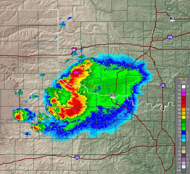 Basis Reflexionsbild